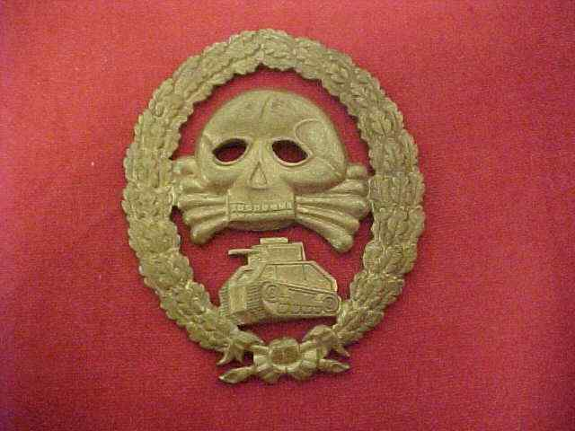 This is one of the original 415 Kondor-Legionpanzerabzeichen (Condor Legion Tank Badges) awarded to outstanding tank crews during the Spanish Civil-War. It belongs to my grandfather Gustauve, a former Third Reich PanzerKommander who served from 1936 to 1945.